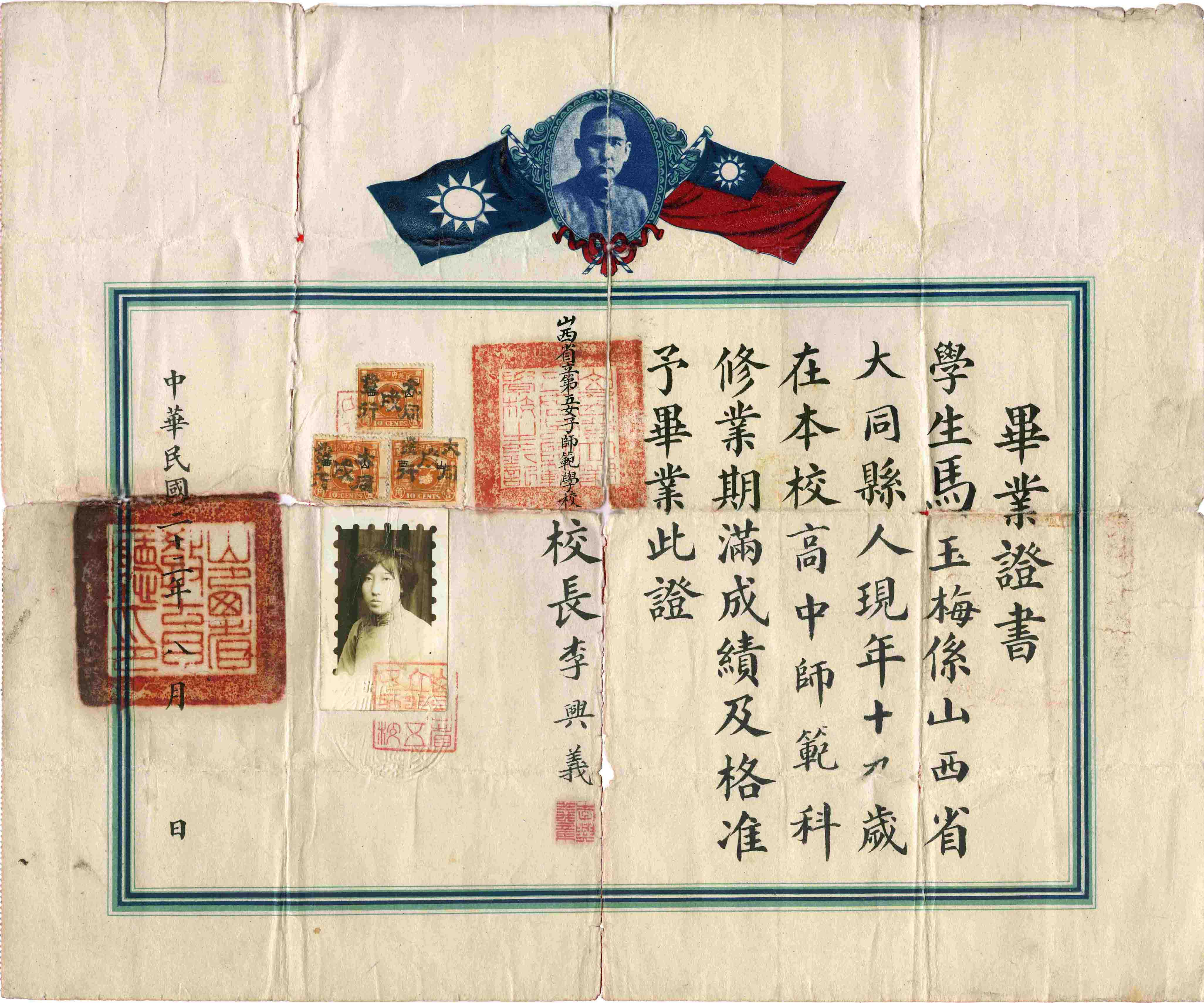 Ma Yumei's Diploma, 5th Provincial Women's Normal School of Shanxi.jpg